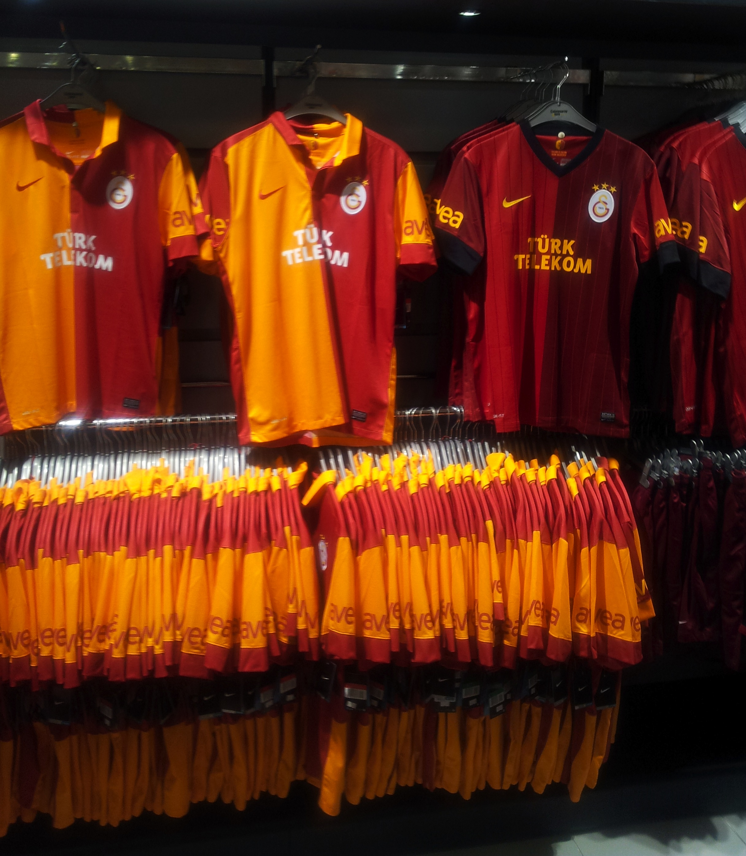 GS Store and New kits